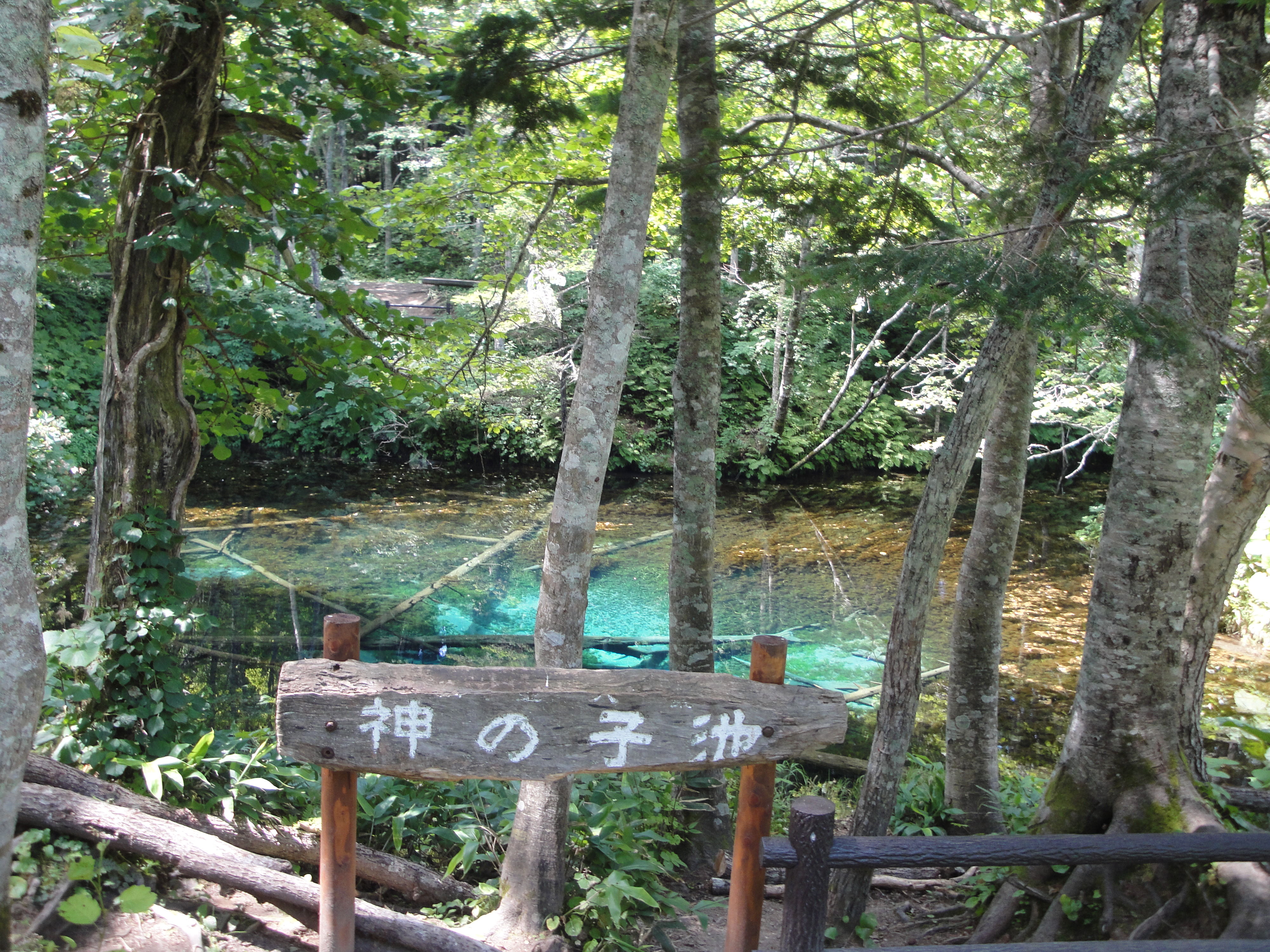 Kaminokoike